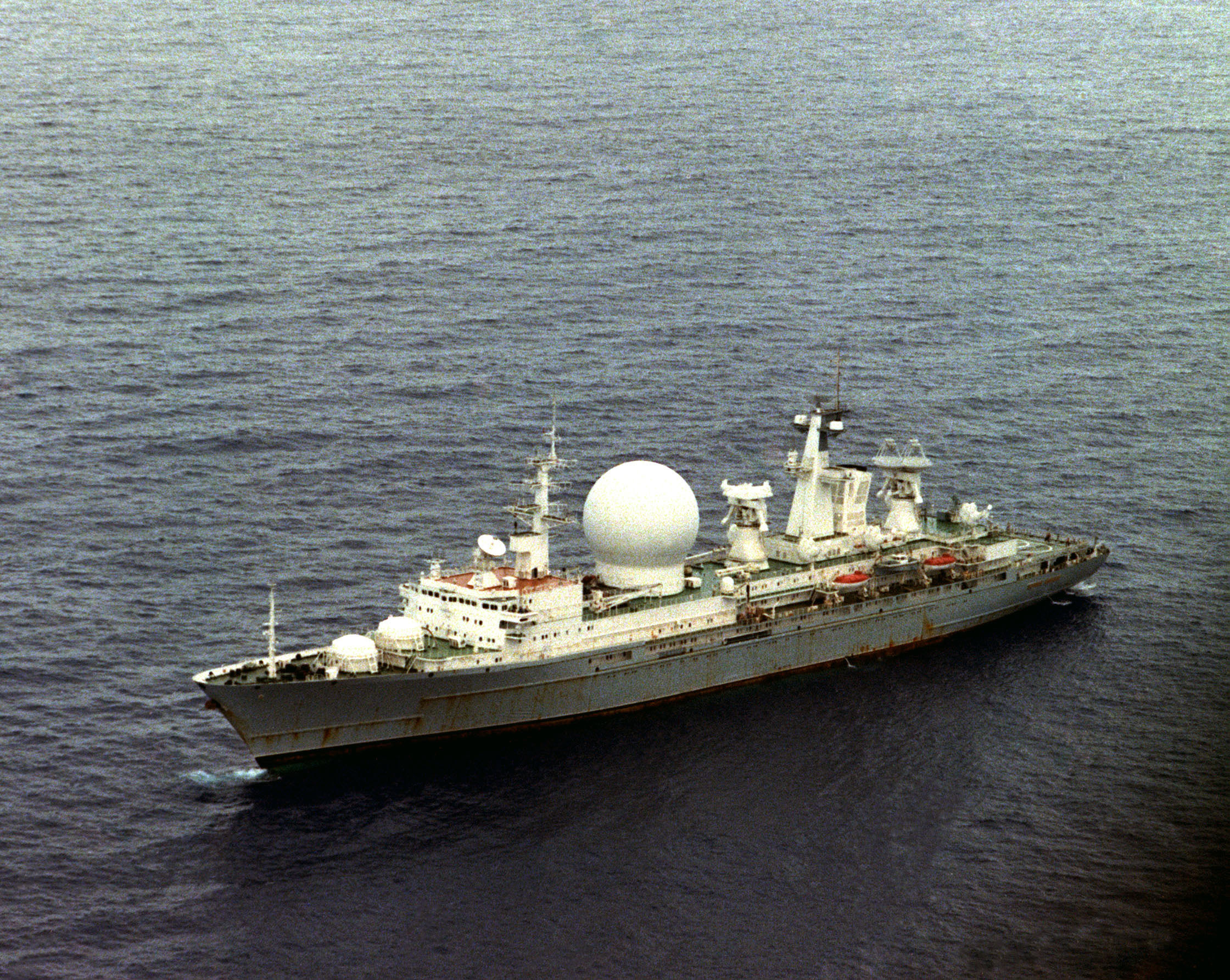 A port bow view of the Soviet missile range instrumentation ship MARSHAL NEDELIN.